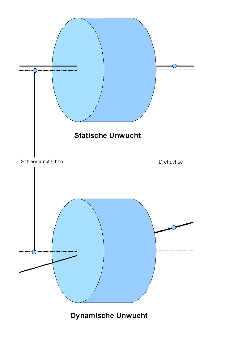 static imbalance, dynamic imbalance